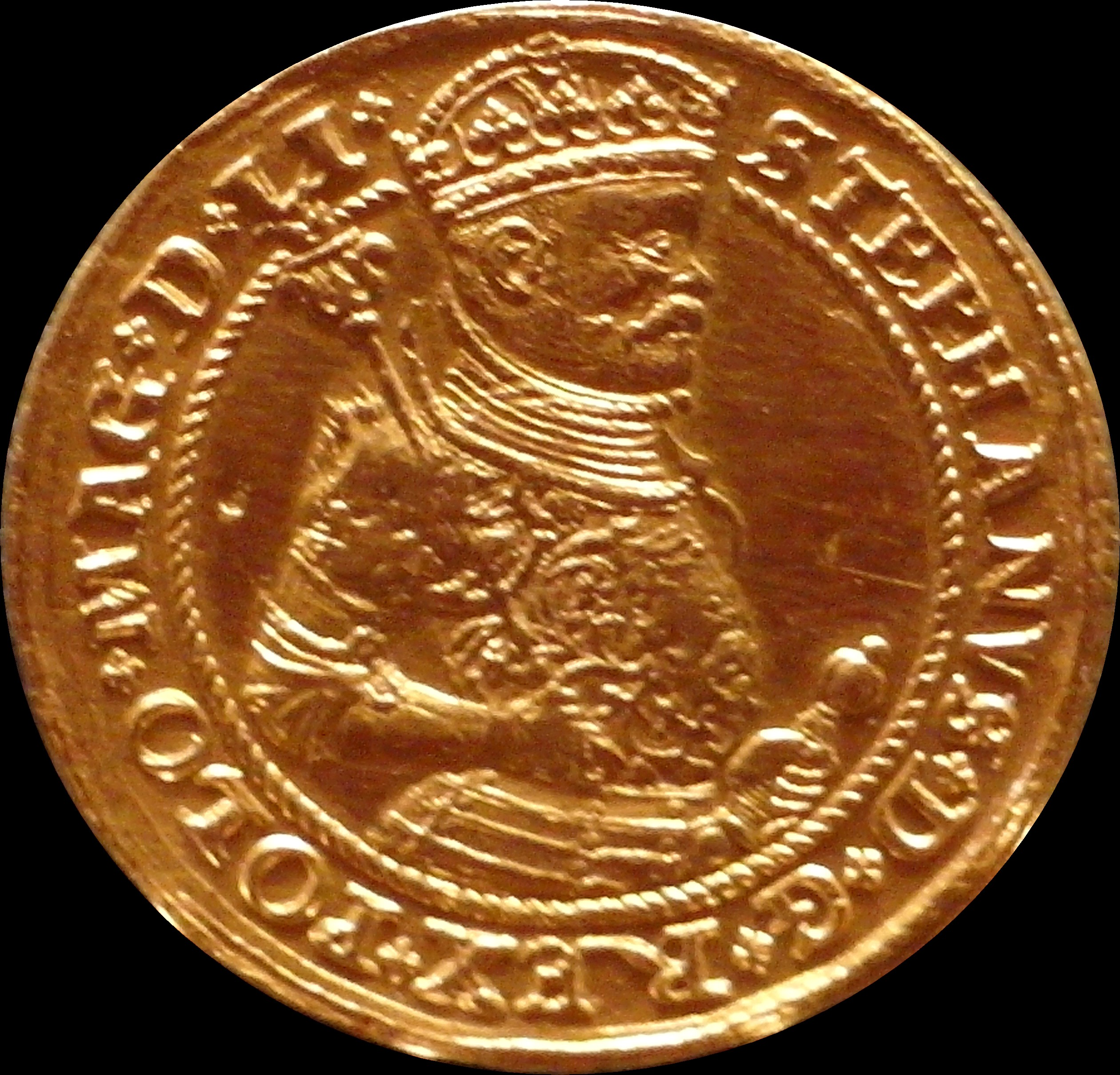 Portugal coin of Stephen Báthory , Riga 1586